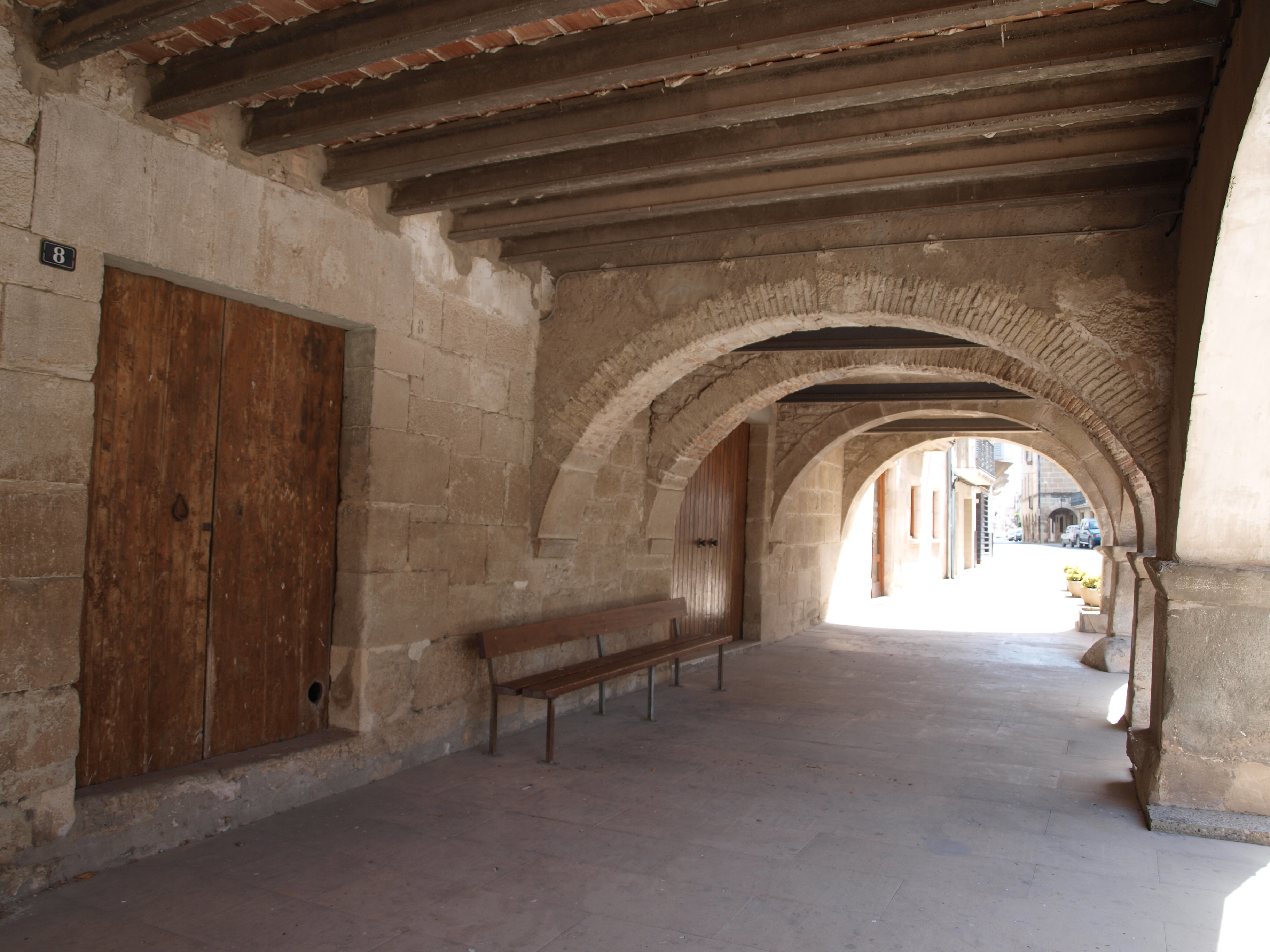 Arcades in Vilanova de Bellpuig